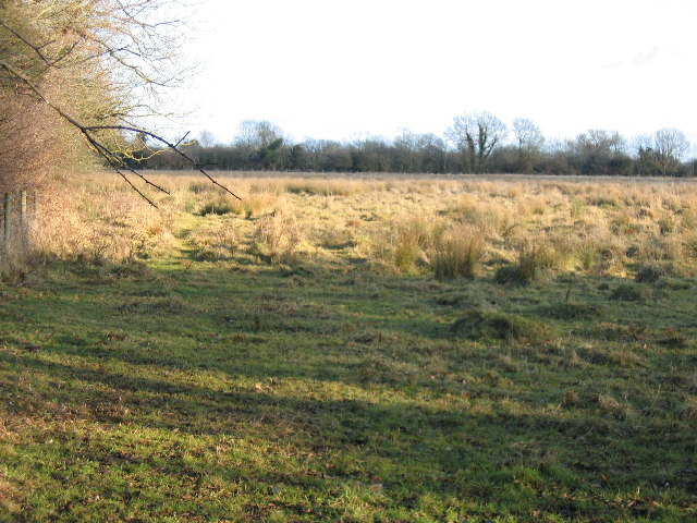 Pike Corner SSSI, Ashton Keynes. This boring looking field is a Site of Special Scientific Interest as unimproved grassland. It is grazed in summer and has a rich flora (if examined very closely at the right time of year). Fritillaries are notable. Most other fields around have been dug for gravel.